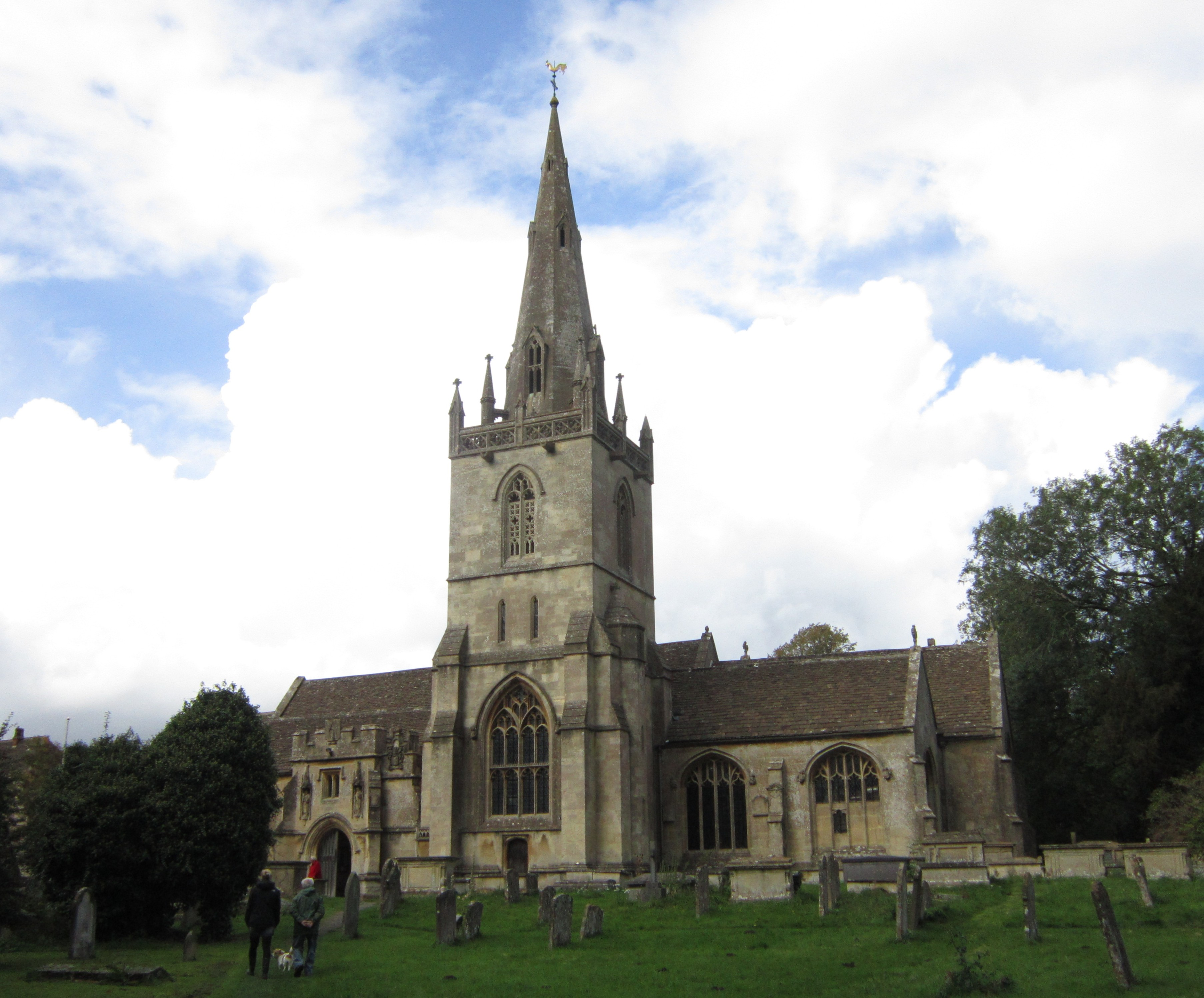 St Bartholomew's parish church, Corsham, Wiltshire, seen from the south